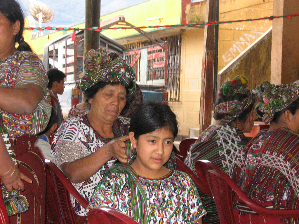 Ixil women in Nebaj, Guatemala.